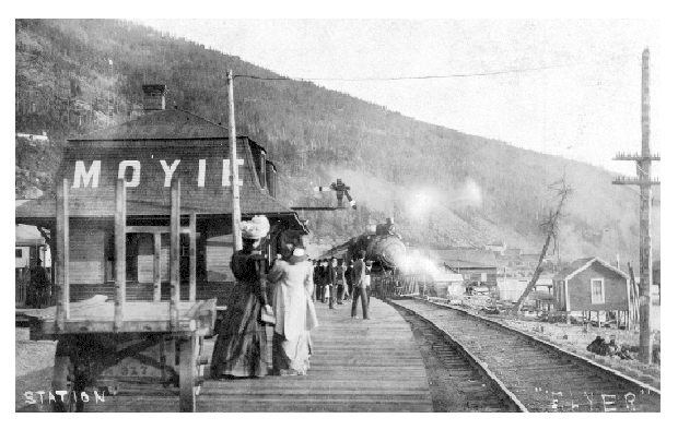 Photographer:Unknown Photo taken:1908 Source:BC Archives #B-00647 [1]